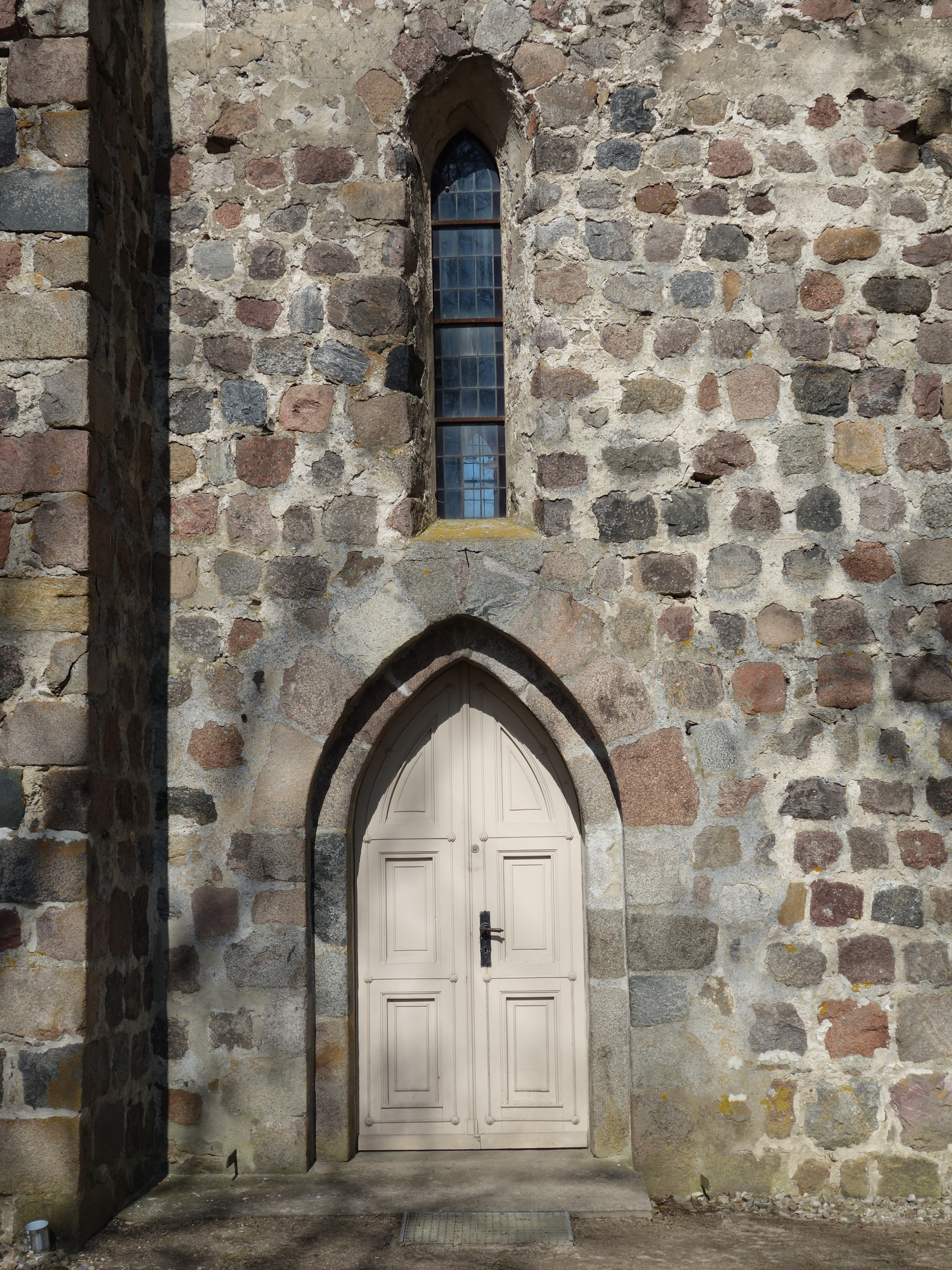 Southern portal of the church in Falkenwalde , Uckerfelde municipality , Uckermark district, Brandenburg state, Germany